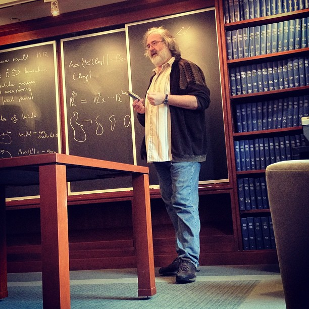 This picture shows Helmut Hofer giving the Informal Astrophysics Seminar at the Institute for Advanced Study in Princeton on May 3rd 2012.